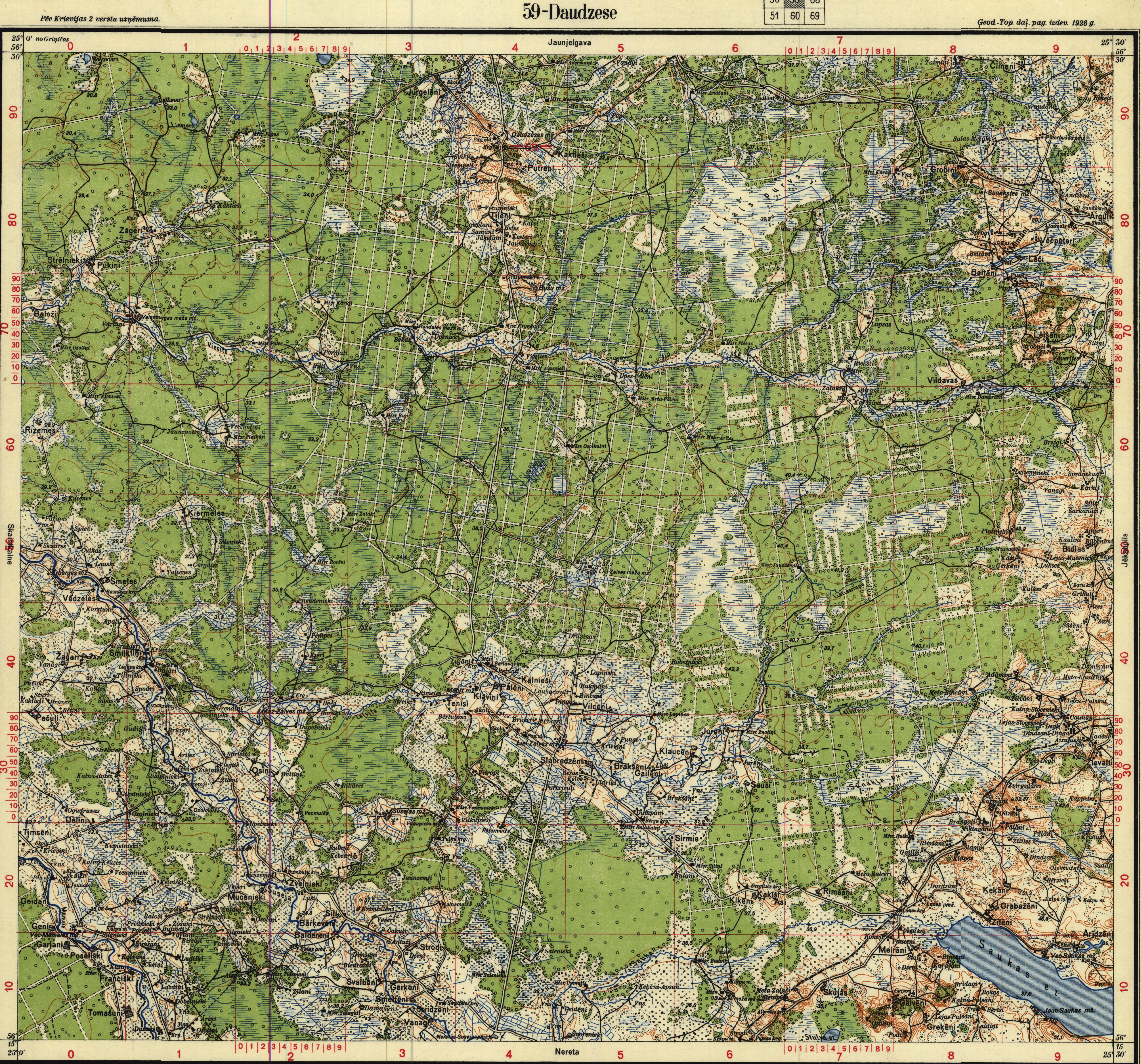 1925 map